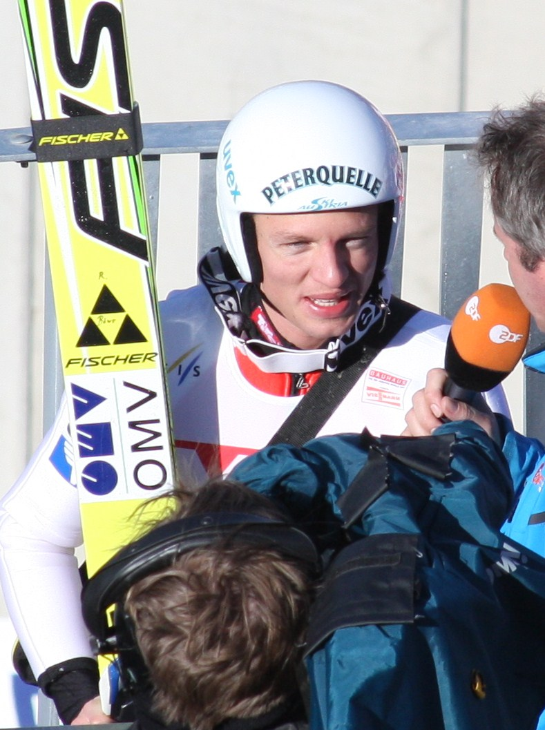 David Zauner after his 2nd jump in Holmenkollen, WC Oslo, 14 march 2010